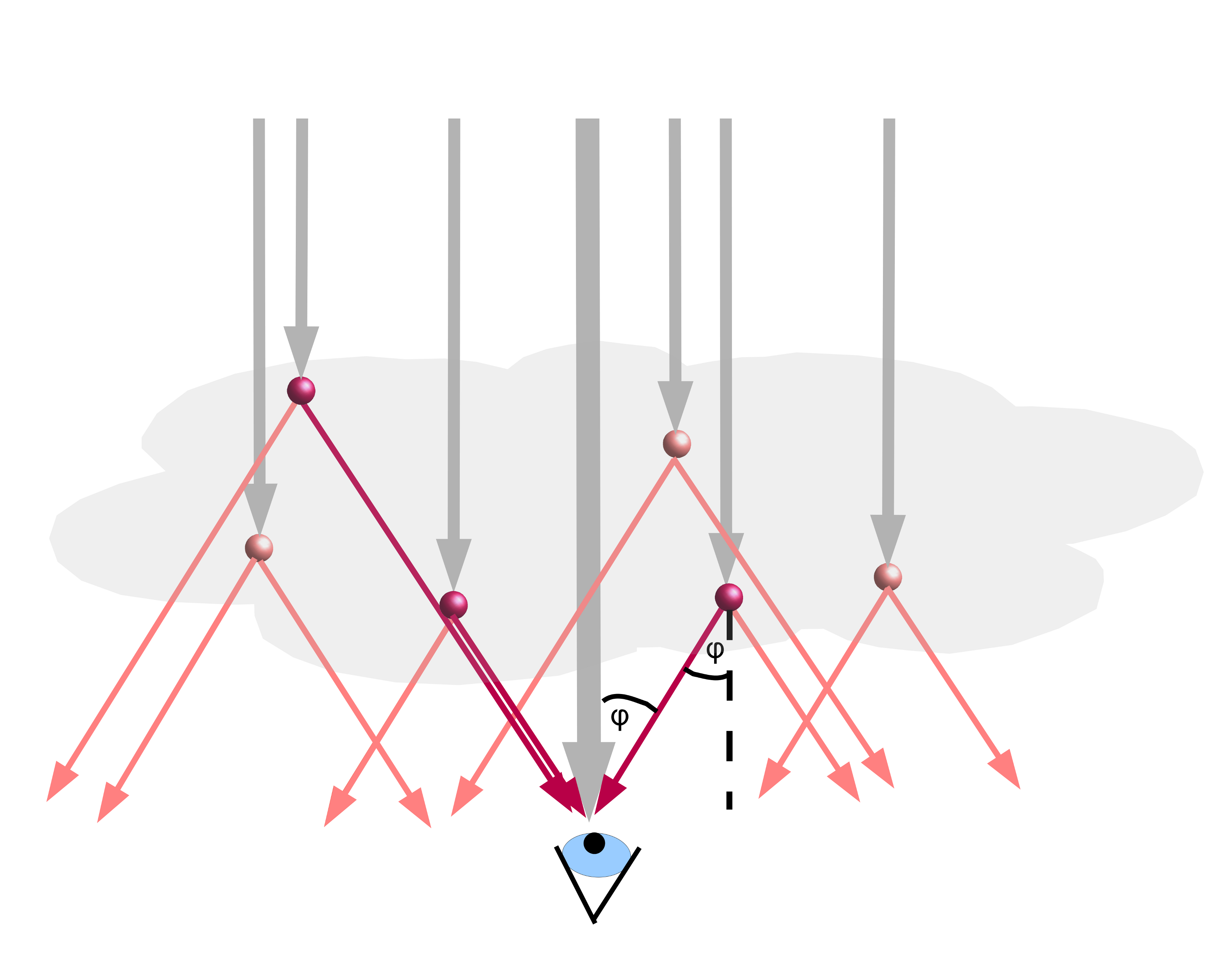 Corona around moon or sun resulted from light diffracted by waterdrops in the clouds. Each drop diffracted the light in the surface of a cone. From each cone a person only views the light which reaches his eye. As all cones have the same opening angle, the light one sees seems to come from a ring. So coronae have the form of rings around the moon.